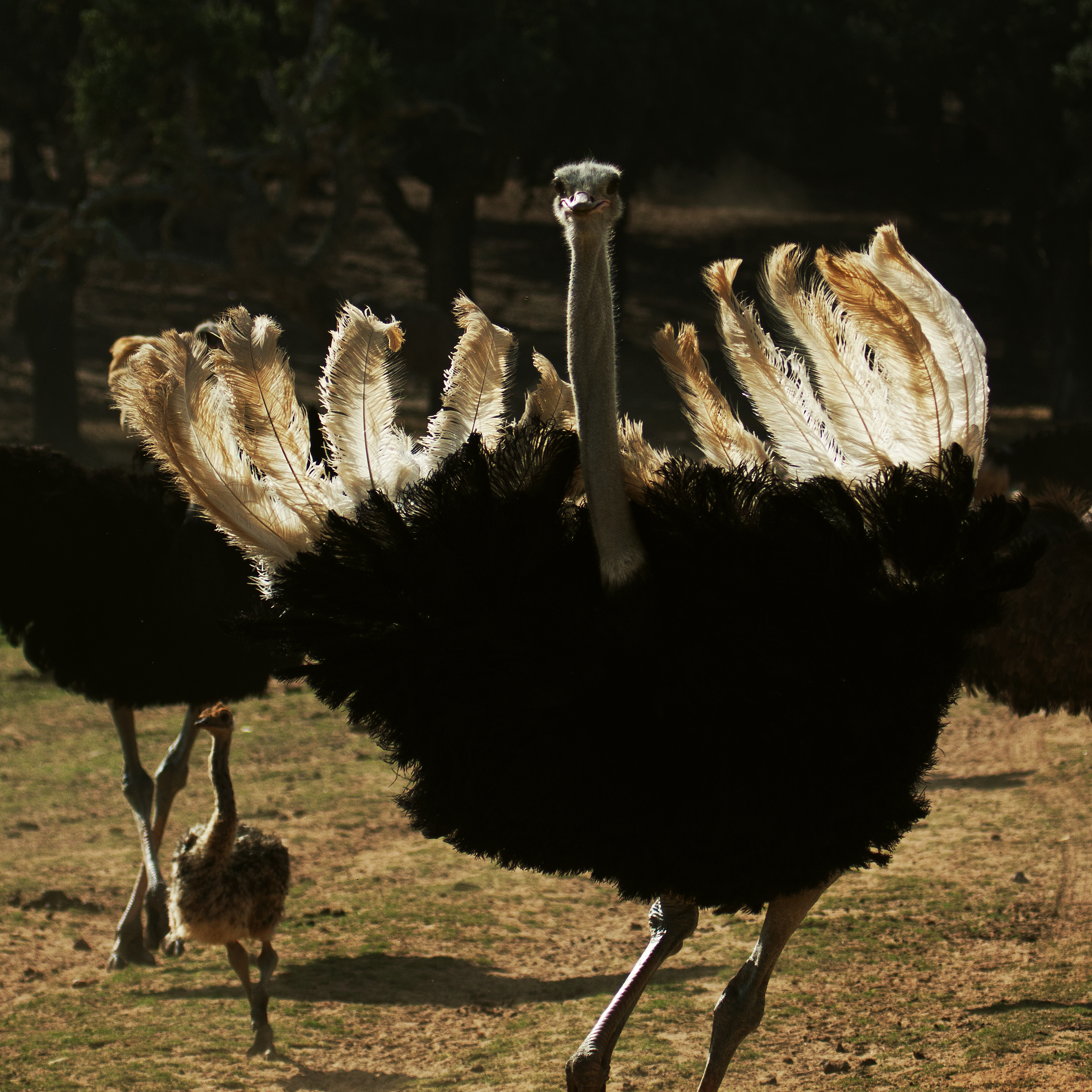 Ostrich - Struthio camelus, Photo taken at Badoca Safari Park